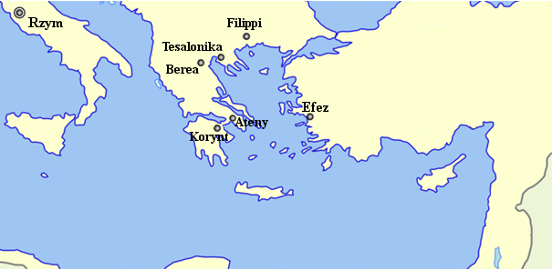 The map of First Epistle to the Thessalonians